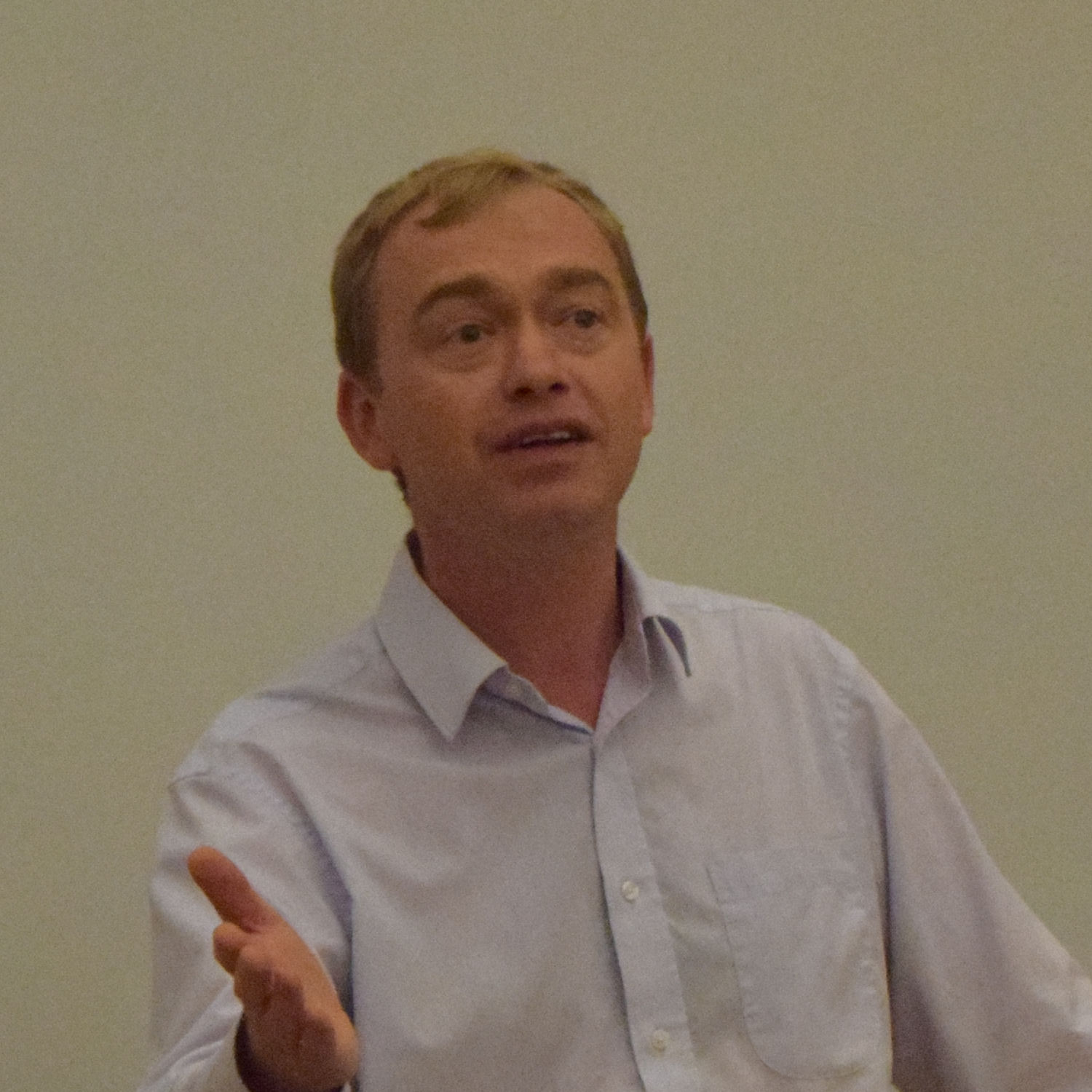 Tim Farron MP speaking at a hustings in Cambridge during the 2015 Liberal Democrat leadership contest